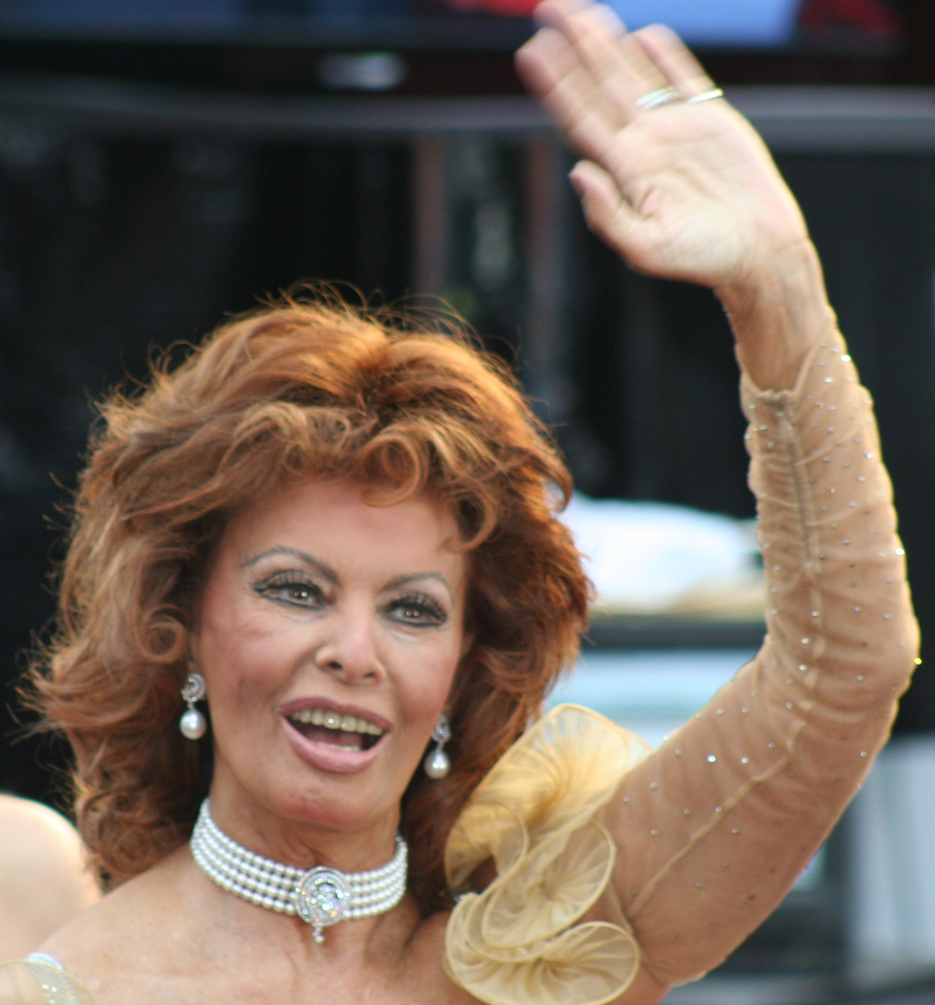 Sophia Loren at the 81st Academy Awards